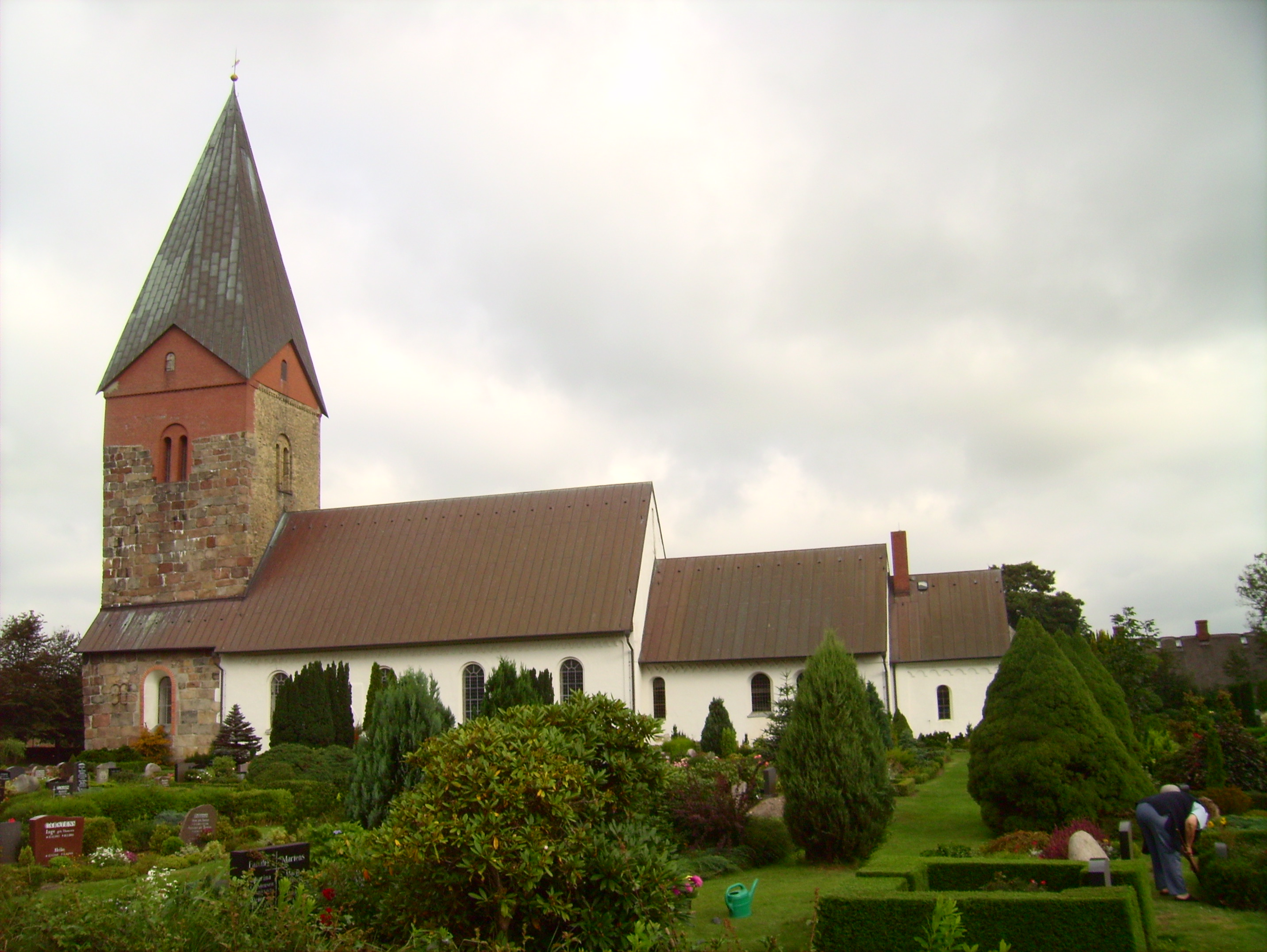 St. Marienkirche, Church in Hattstedt (Northern Frisia/Germany)